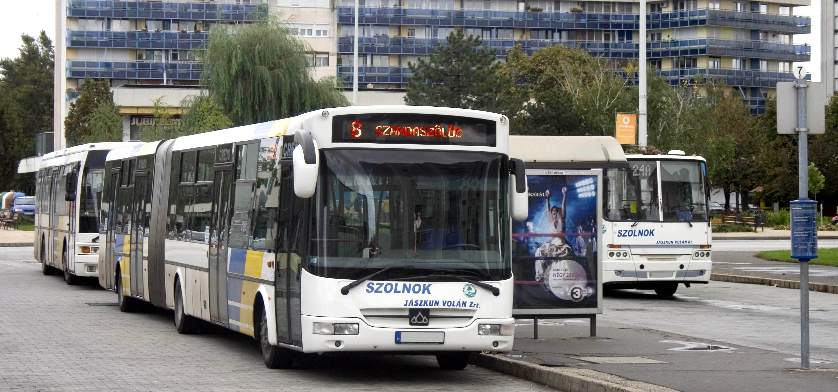 Hungary Szolnok Bus Station & Jubilee Square - Jaszkunvolan